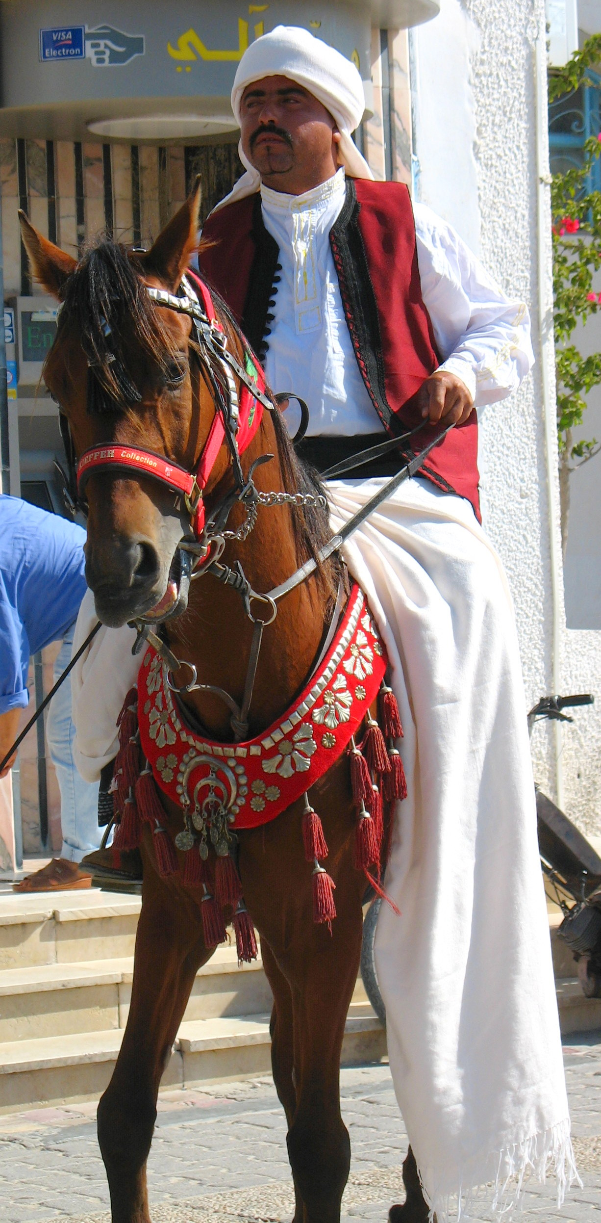 Fantasia in Midoun, Djerba (Tunisia).